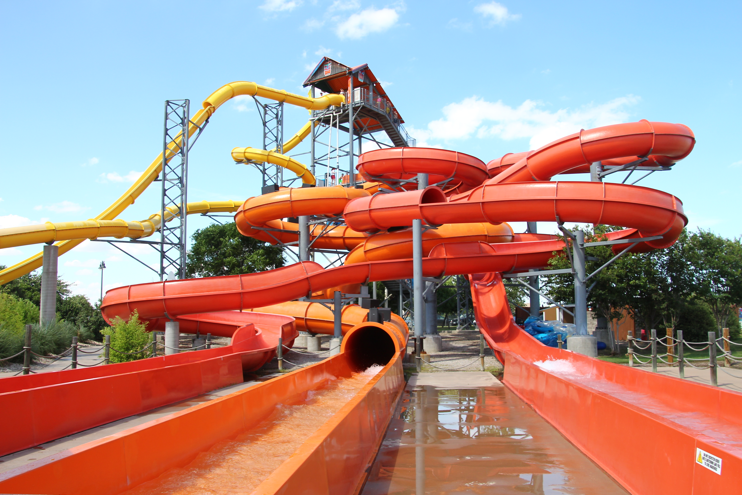 The Pipeline water tube slide ride at Hawaiian Falls waterpark in The Colony, Texas.